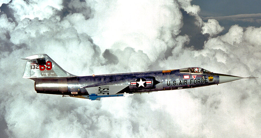 A Lockheed F-104G Starfighter (USAF serial number 63-13269) during a training flight on 1 August 1979, armed with two (training) AIM-9J Sidewinder air-to-air-missiles. The aircraft, from the 69th Tactical Fighter Training Squadron, 58th Tactical Training Wing, 12th Air Force, was used to train German Luftwaffe (air force) pilots at Luke Air Force Base, Arizona (USA). This aircraft had actually been licence built by Fokker in the Netherlands and had the original German registration "KG 102". After the retirement of the German Starfighters this aircraft was handed back to the U.S. and sold to Taiwan. (USAF photo)